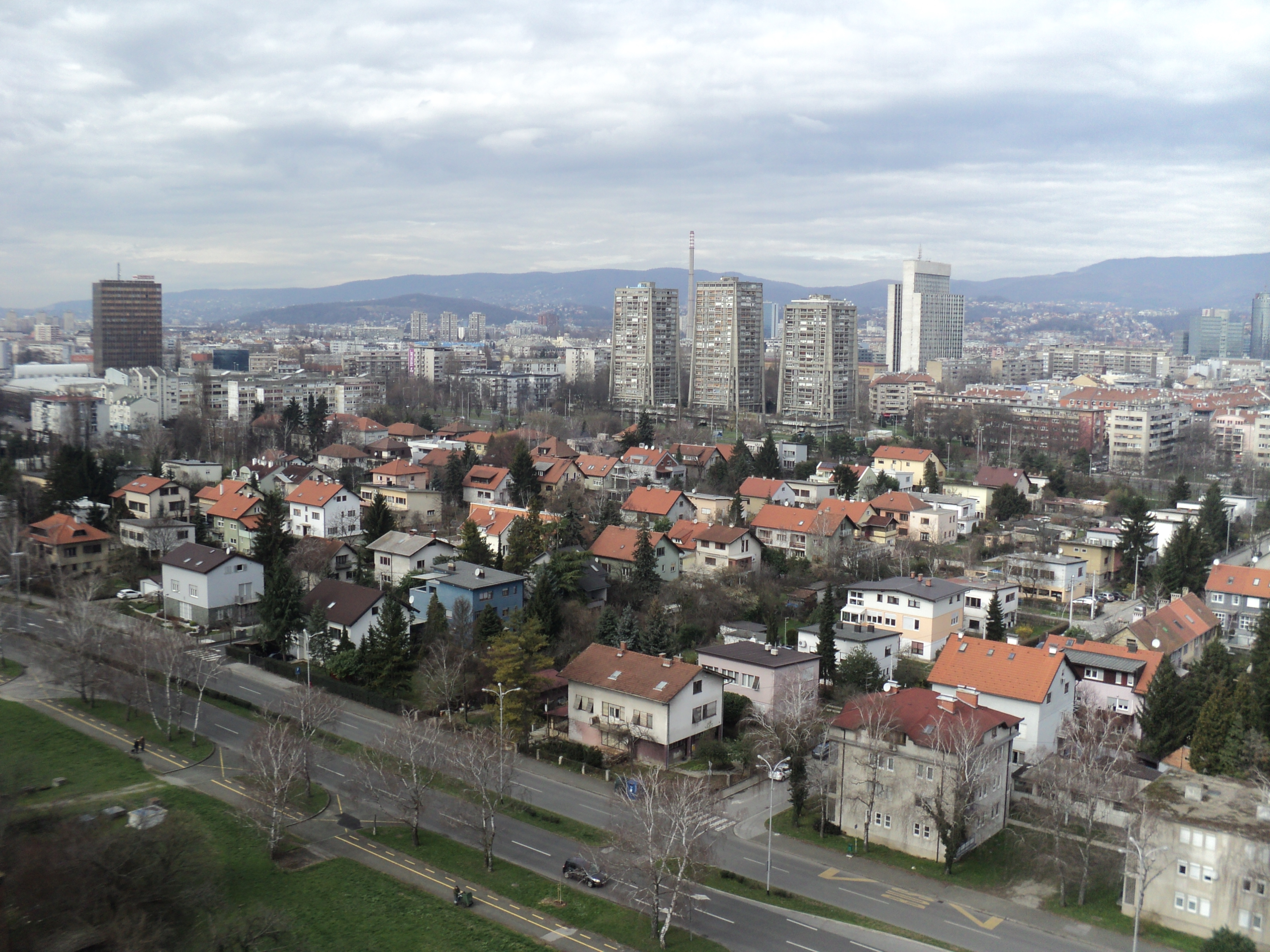 General view at the Cvjetno settlement and some skyscrapers (Vjesnik, Richter's buildings and Zagrepčanka) in Zagreb.